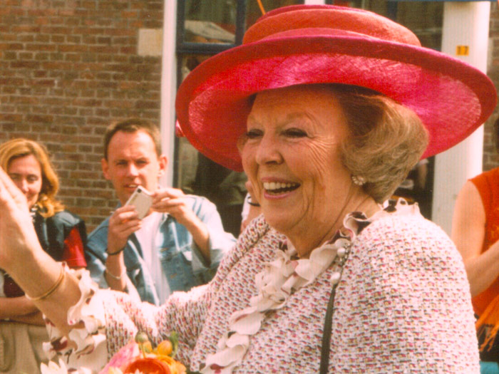 Beatrix of the Netherlands